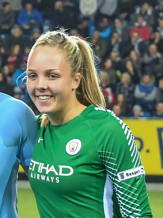 4/10/17, St. Poelten, Austria, sports, soccer, UEFA Women's Champions League - SKN St. Poelten vs Manchester City.